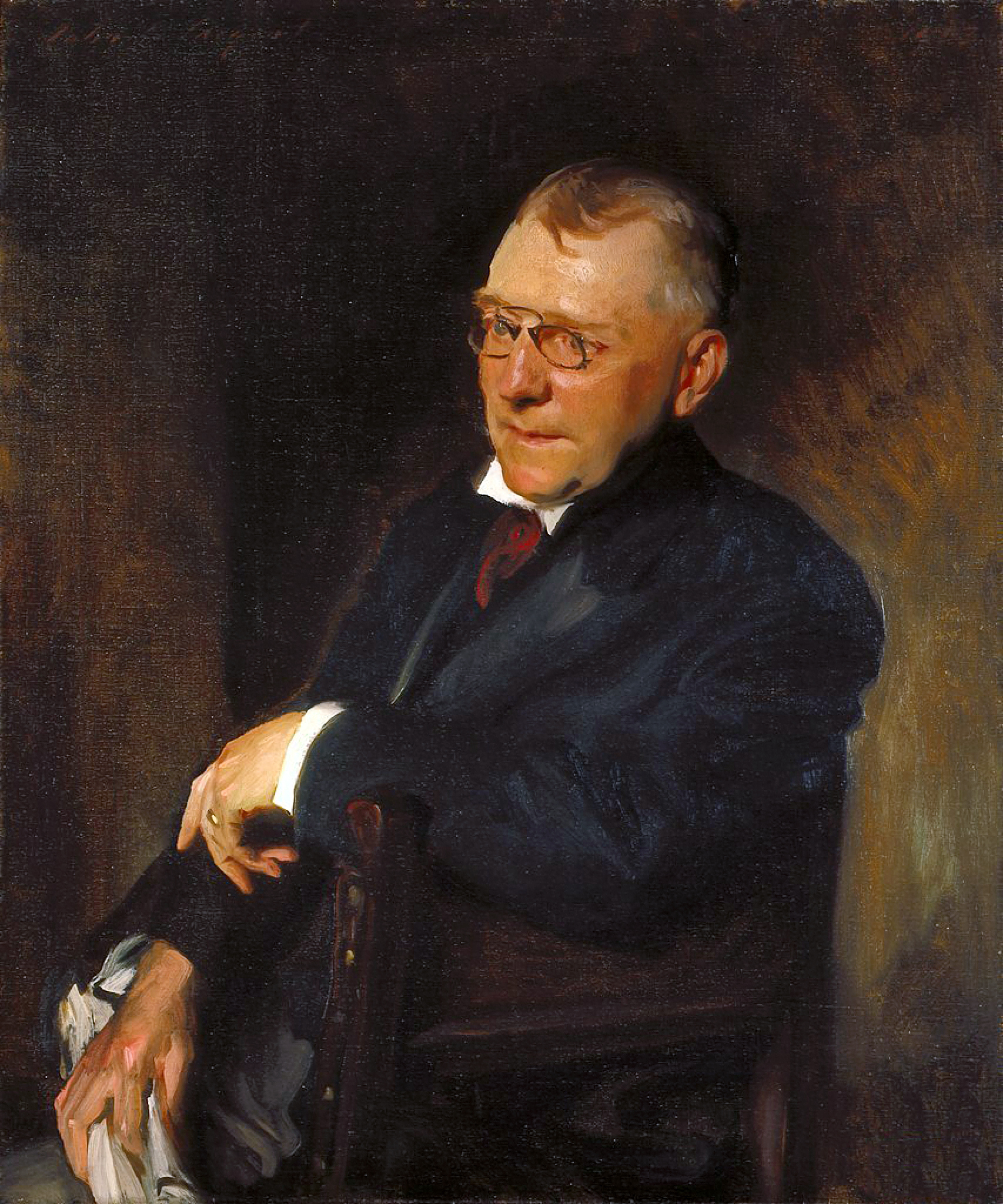 James Whitcomb Riley John Singer Sargent -- American painter 1903 Indianapolis Museum of Art , Indianapolis, IN Oil on canvas 77.5 x 90.2 cm (30.5 x 35.5 in) Painted on commission from the Art Association of Indianapolis Accession number 03.7 Jpg: local/ image / /